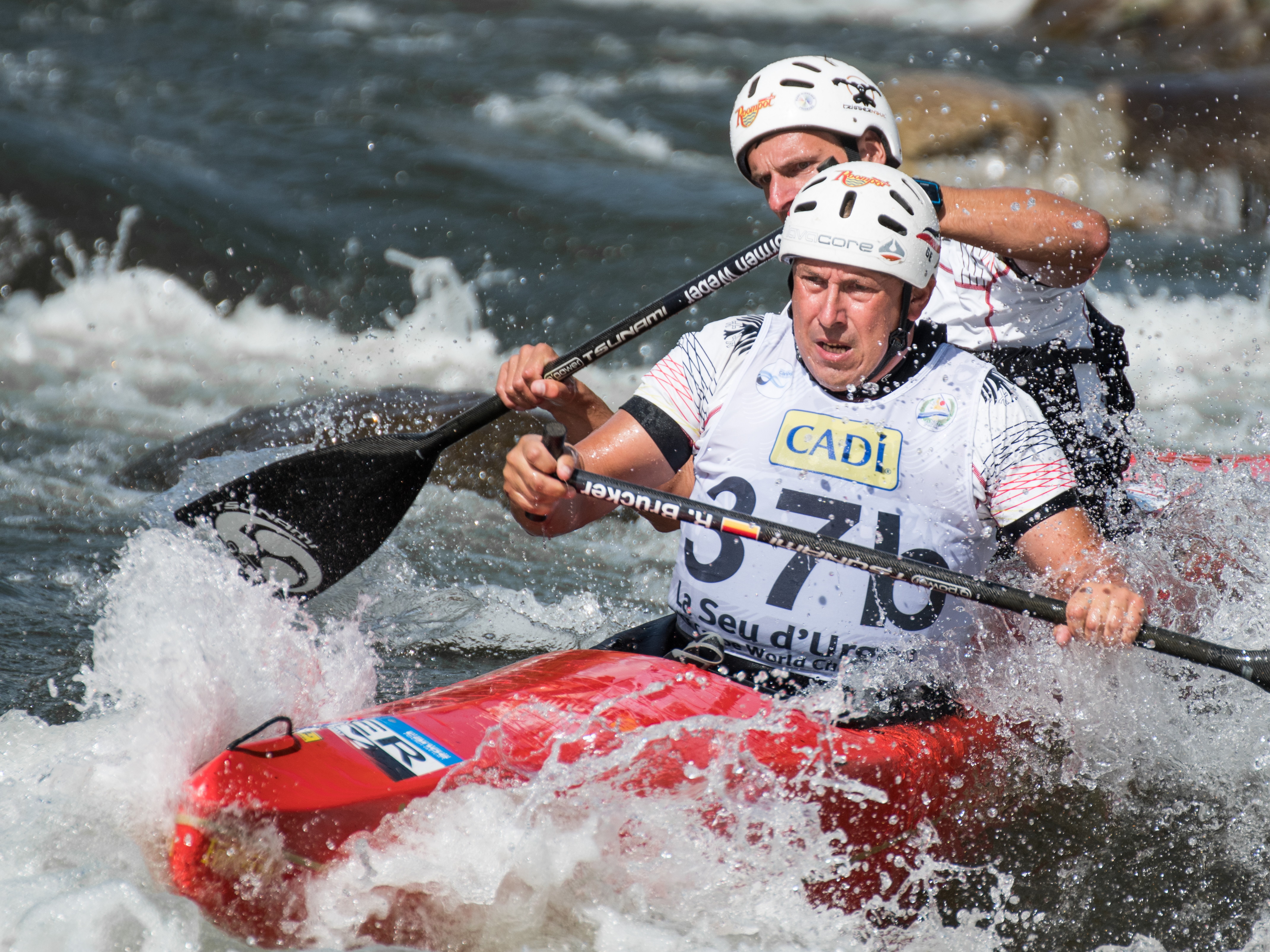 Rene Bruecker and Normen Weber during the 2019 Canoe Wildwater World Championships in La Seu d'Urgell, Spain.